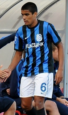 Leonardo de Matos Cruz